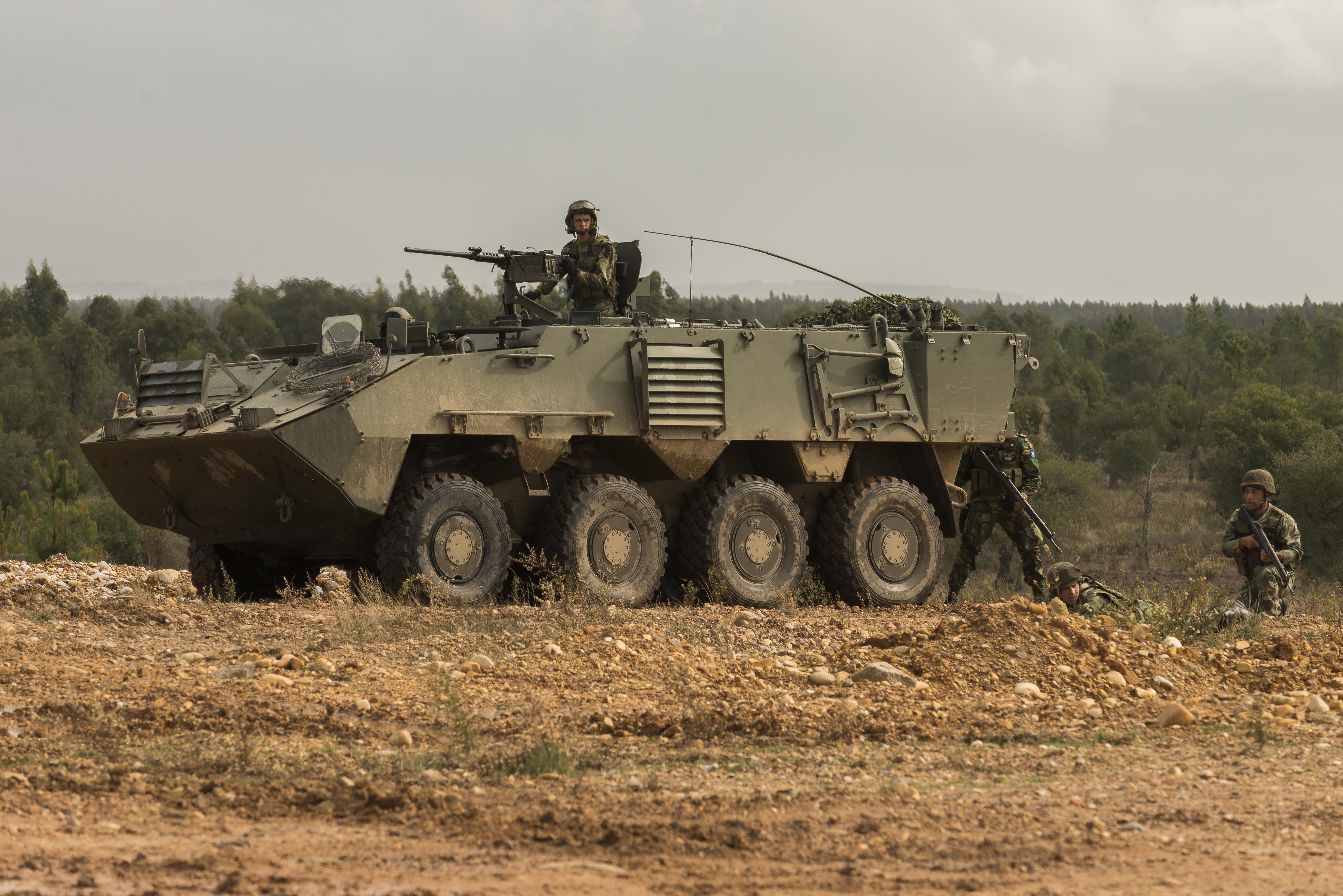 A mechanized portuguese infantry vehicule provides security to dismounted troops in Santa Margarida, Portugal, during JOINTEX 15 as part of NATO’s exercise TRIDENT JUNCTURE 15 on October 28, 2015 . . Photo: Sgt Sebastien Frechette, PA Technician. VL06-2015-379-47